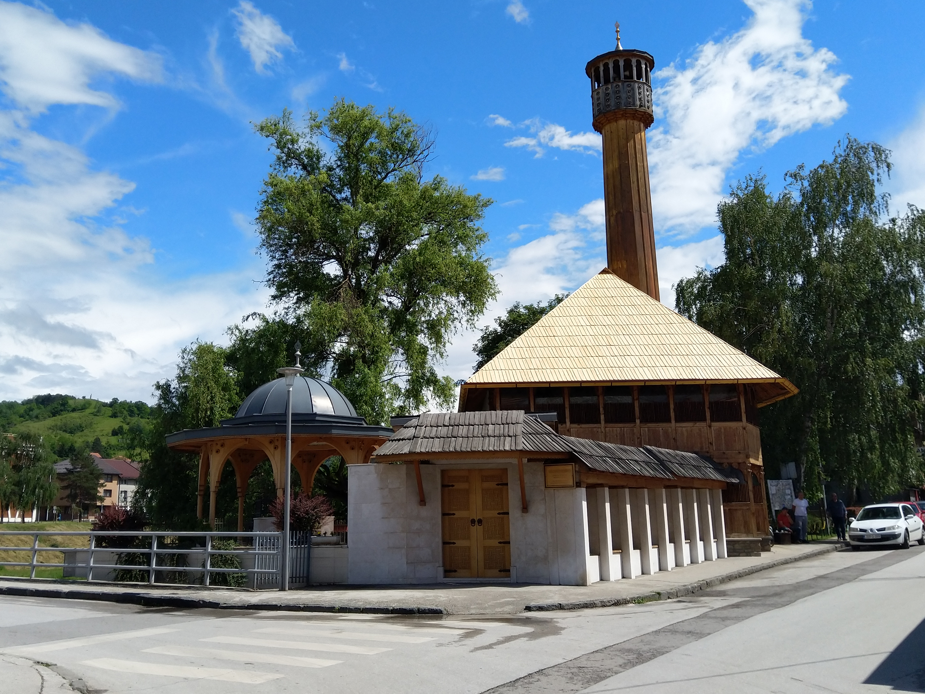 Tabhanska mosque in Visoko, Bosnia